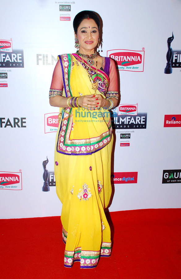 Disha Vakani at the red carpet of Filmfare Awards 2014.